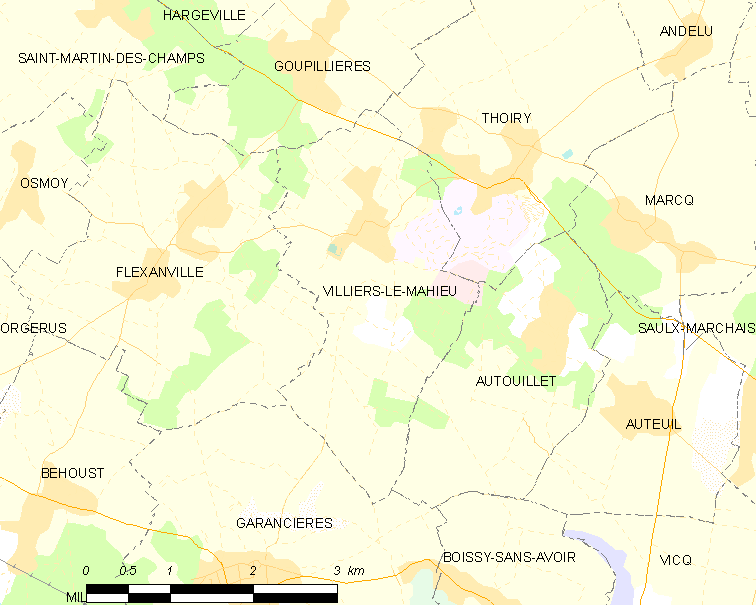 Map of French municipality Villiers-le-Mahieu